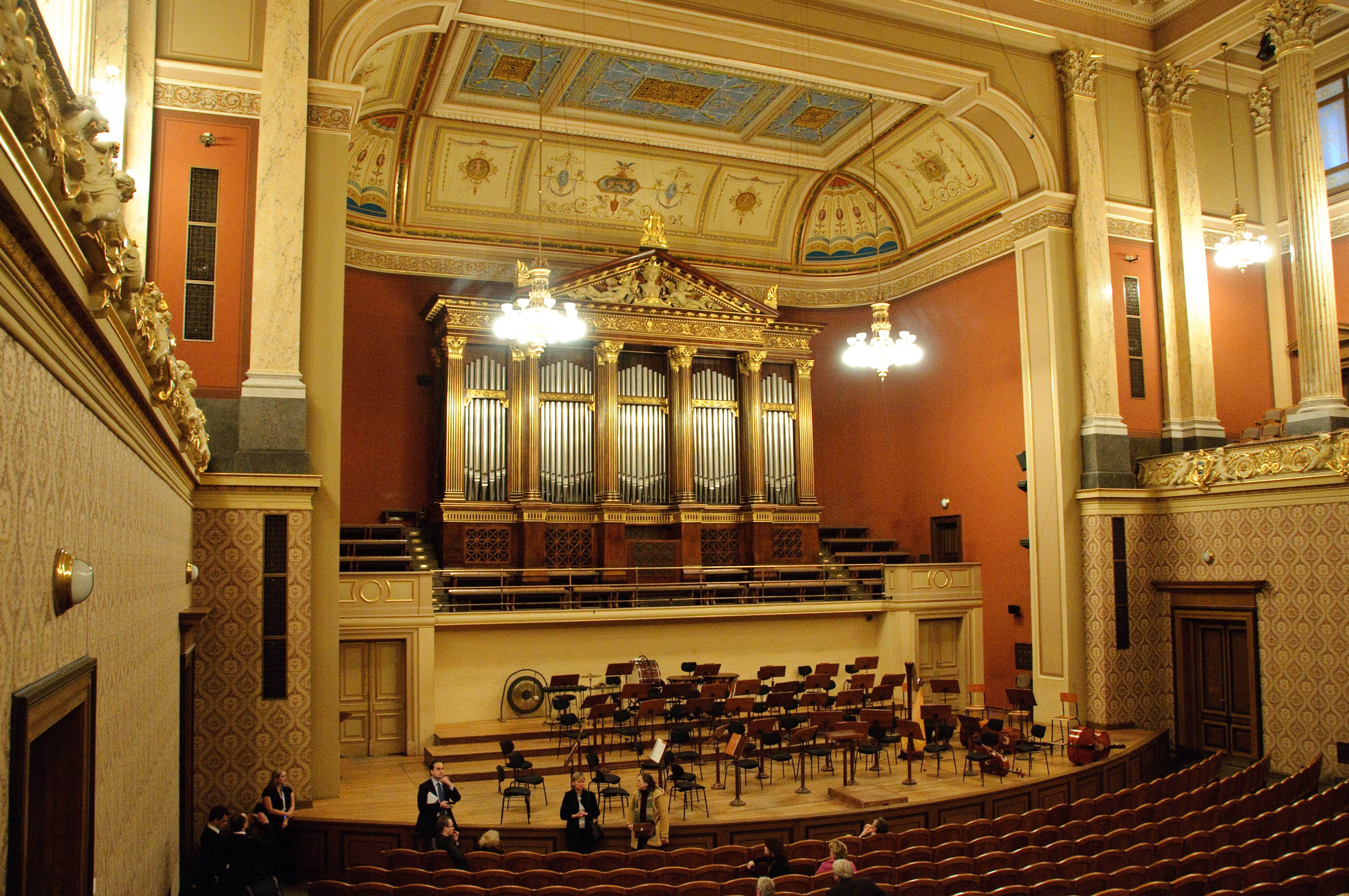 The concert hall of the Rudolfinum in Prague